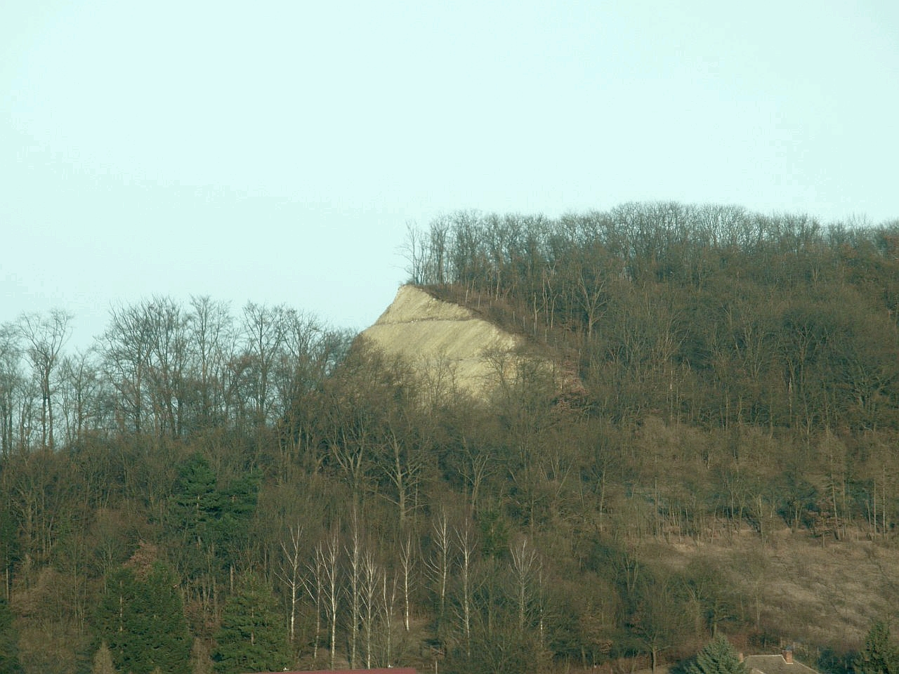 Quarry near Burgwenden (Großmonra) in Thuringia